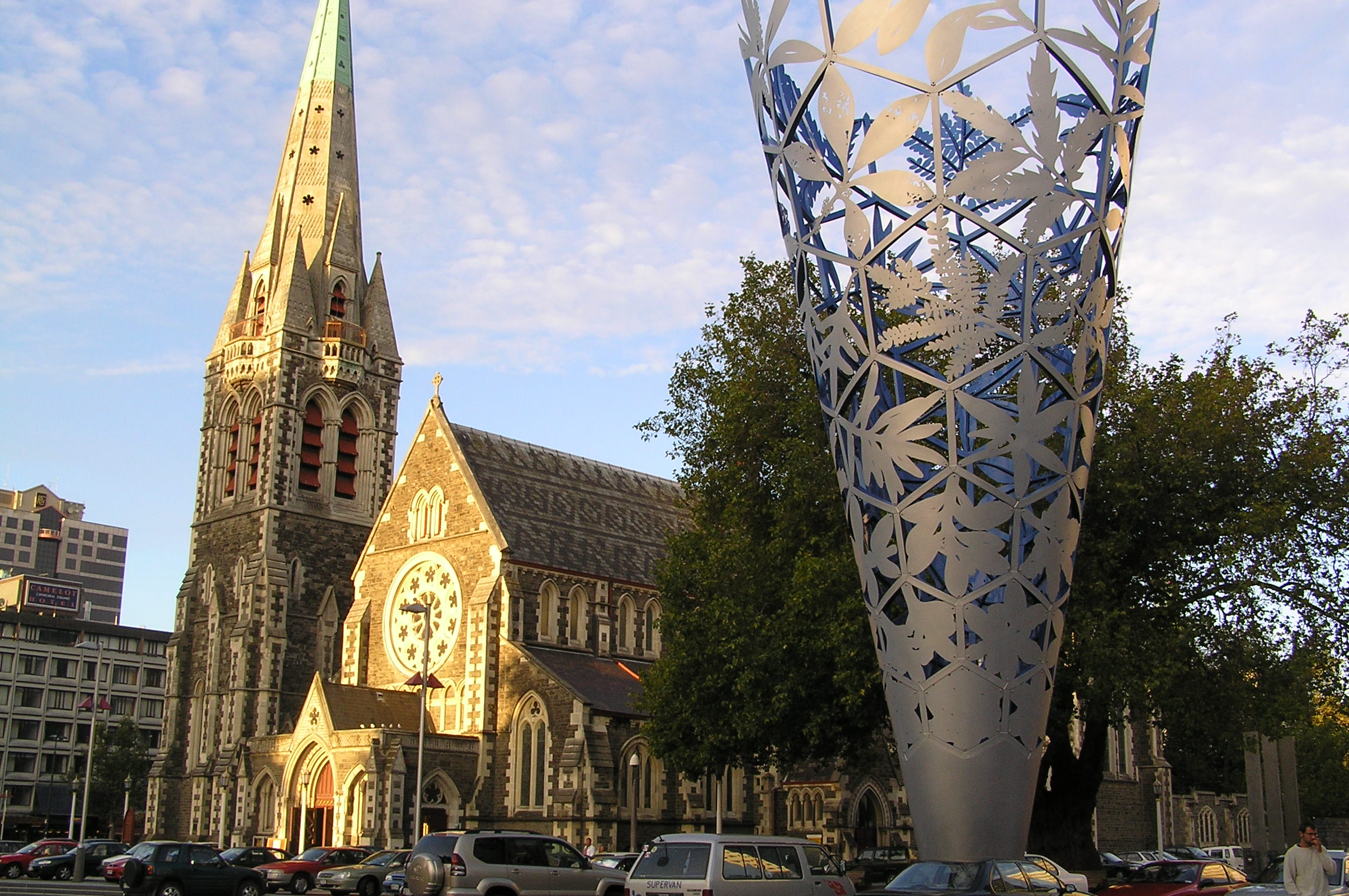 View of Christchurch Square, with the Cathedral in the background and the Neil Dawson's 18m-high Metal Chalice in the foreground.